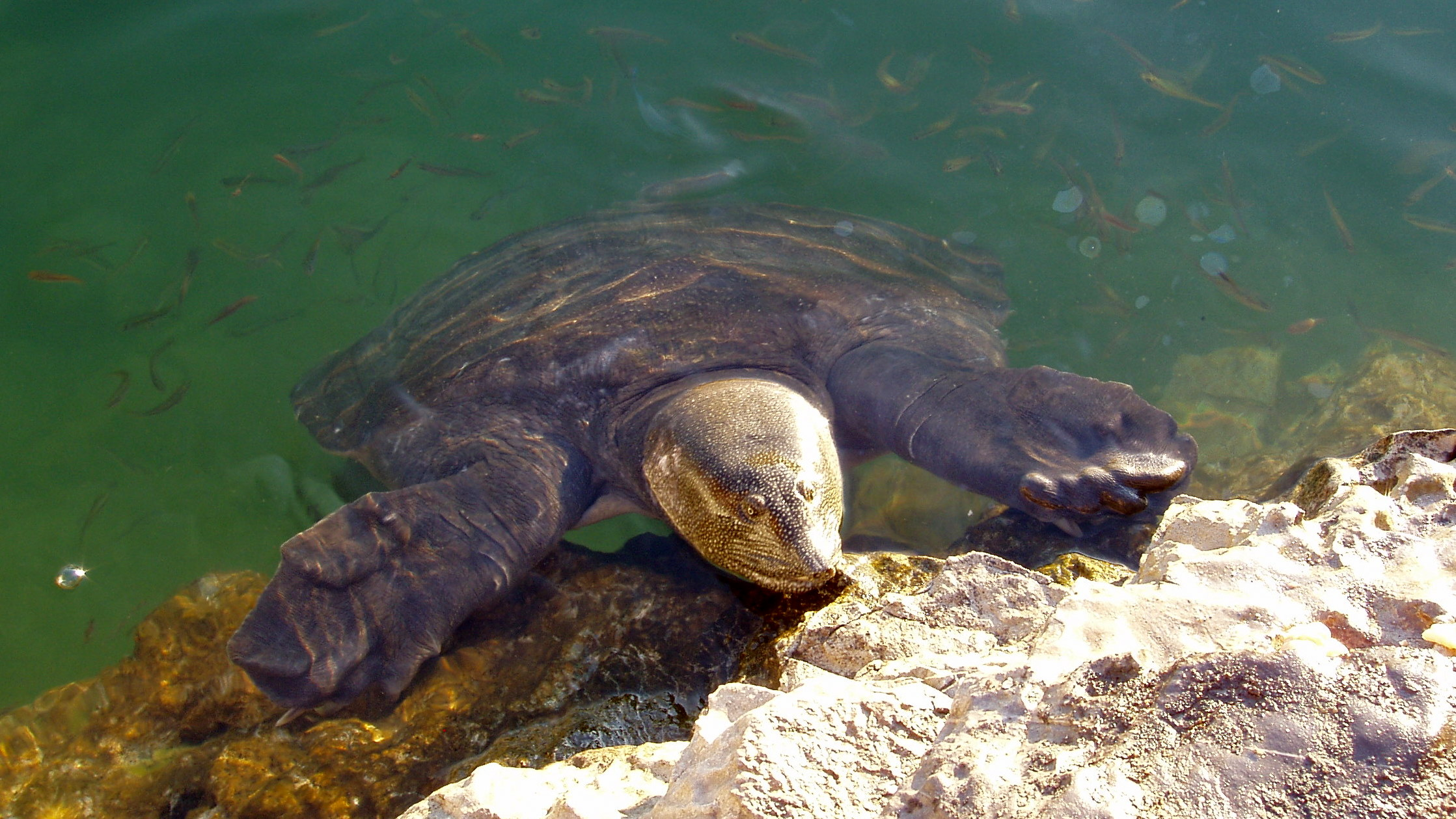 Nile Turtle (Trionyx Triunguis) near mudbath on Dalyan river. Photo: Maria Jonker